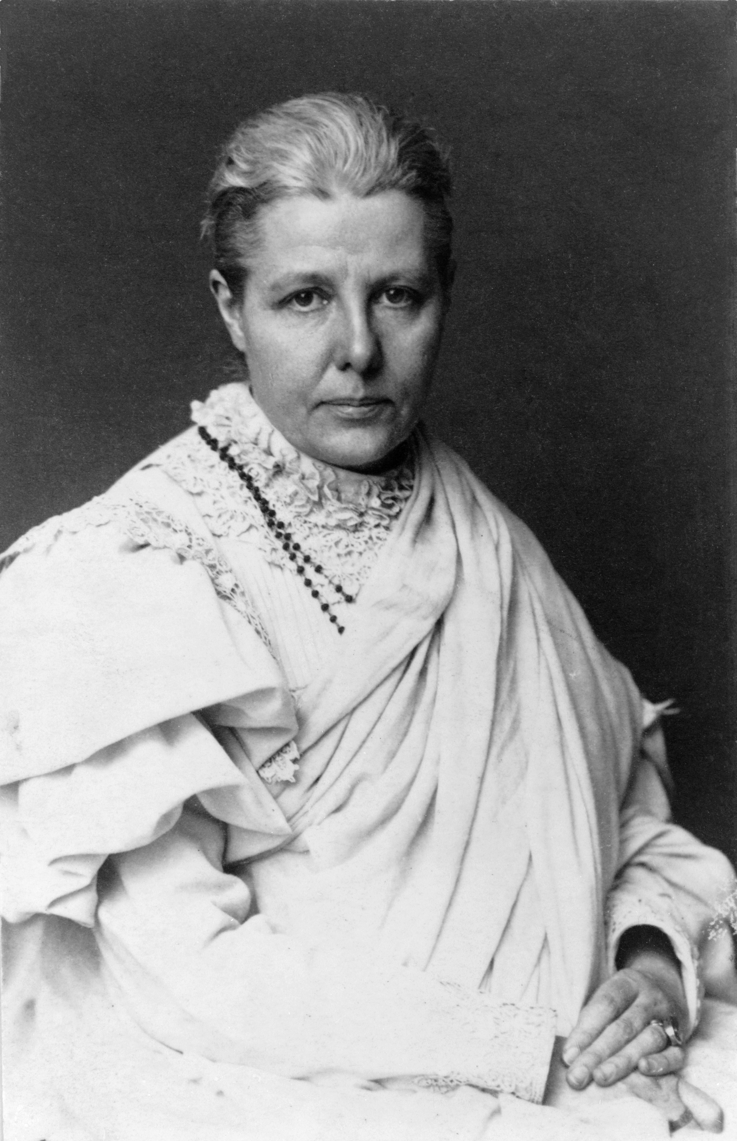 Annie Besant, half-length portrait, seated, facing slightly right, clad in the style of the Aesthetic Dress movement.